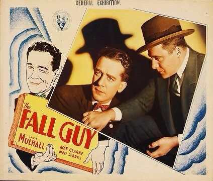 Lobby poster for the American pre-Code film The Fall Guy (1930). Other information The item has no copyright markings.